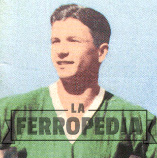 Portrait of former Argentine footballer, Juan Jose Maril, at the Ferro Carril Oeste Club.